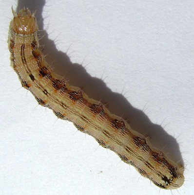 Fifth instar larva of Helicoverpa armigera.